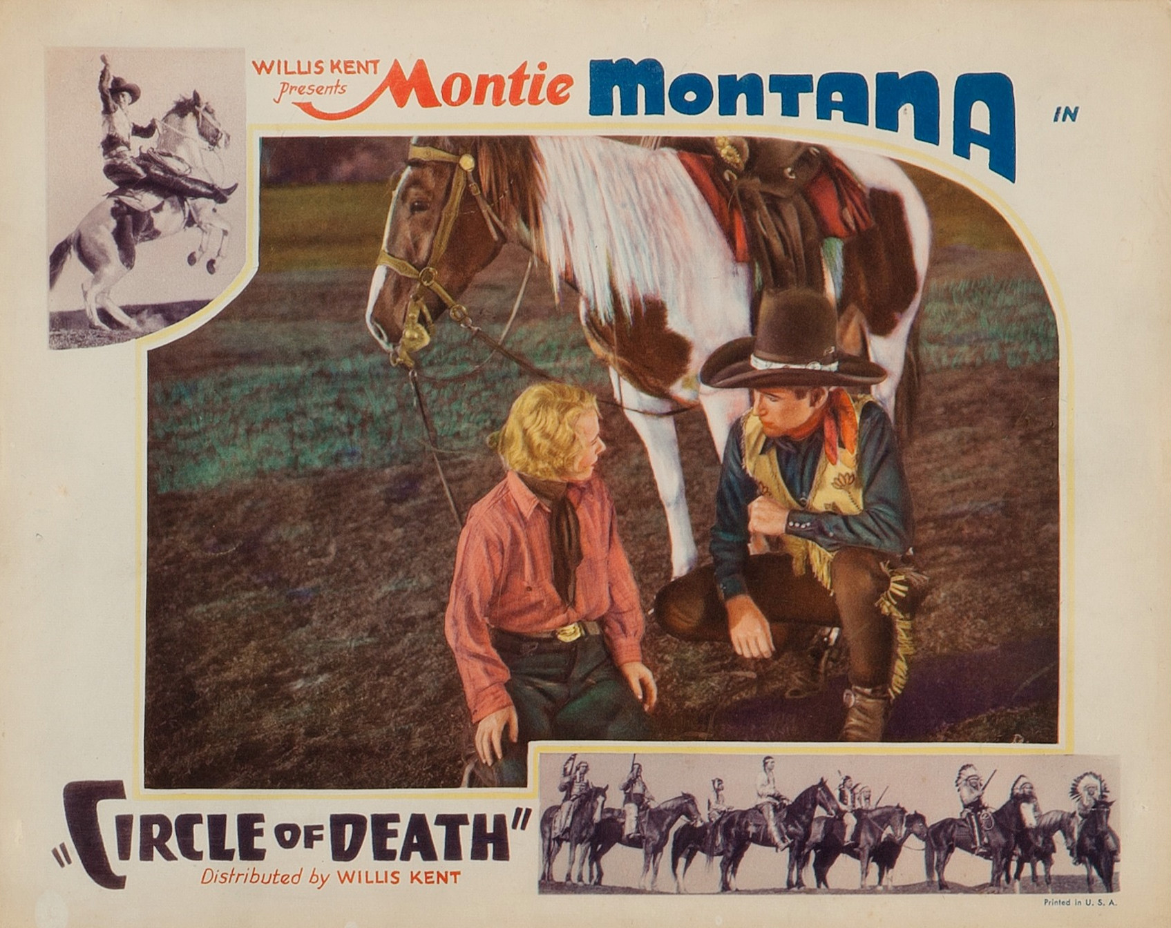 Lobby card for the American western film Circle of Death (1935) with Tove Linden and Montie Montana.